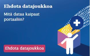 Screenshot from EUODP